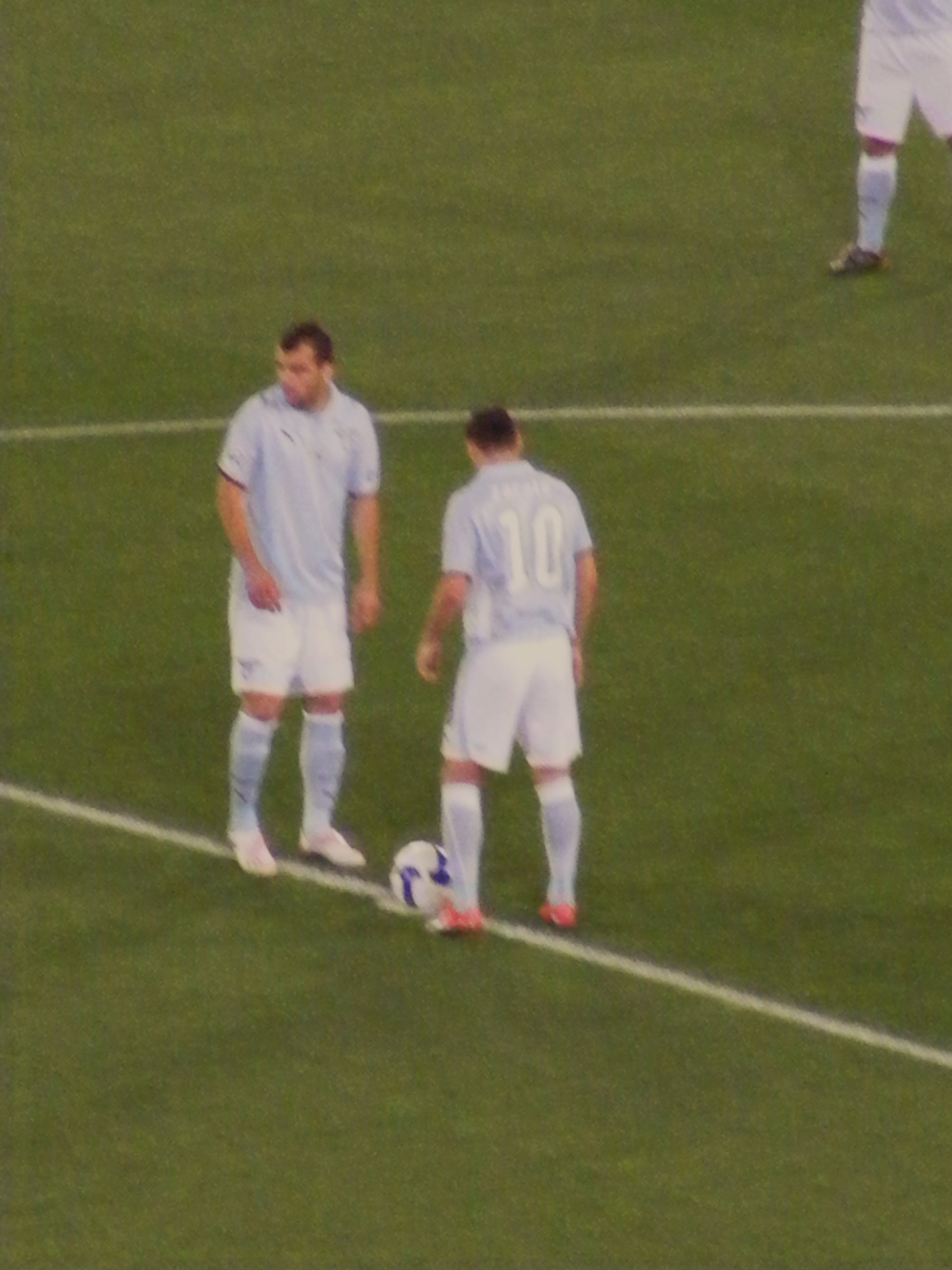 Mauro Zárate and Goran Pandev at the 2009 Coppa Italia Final.